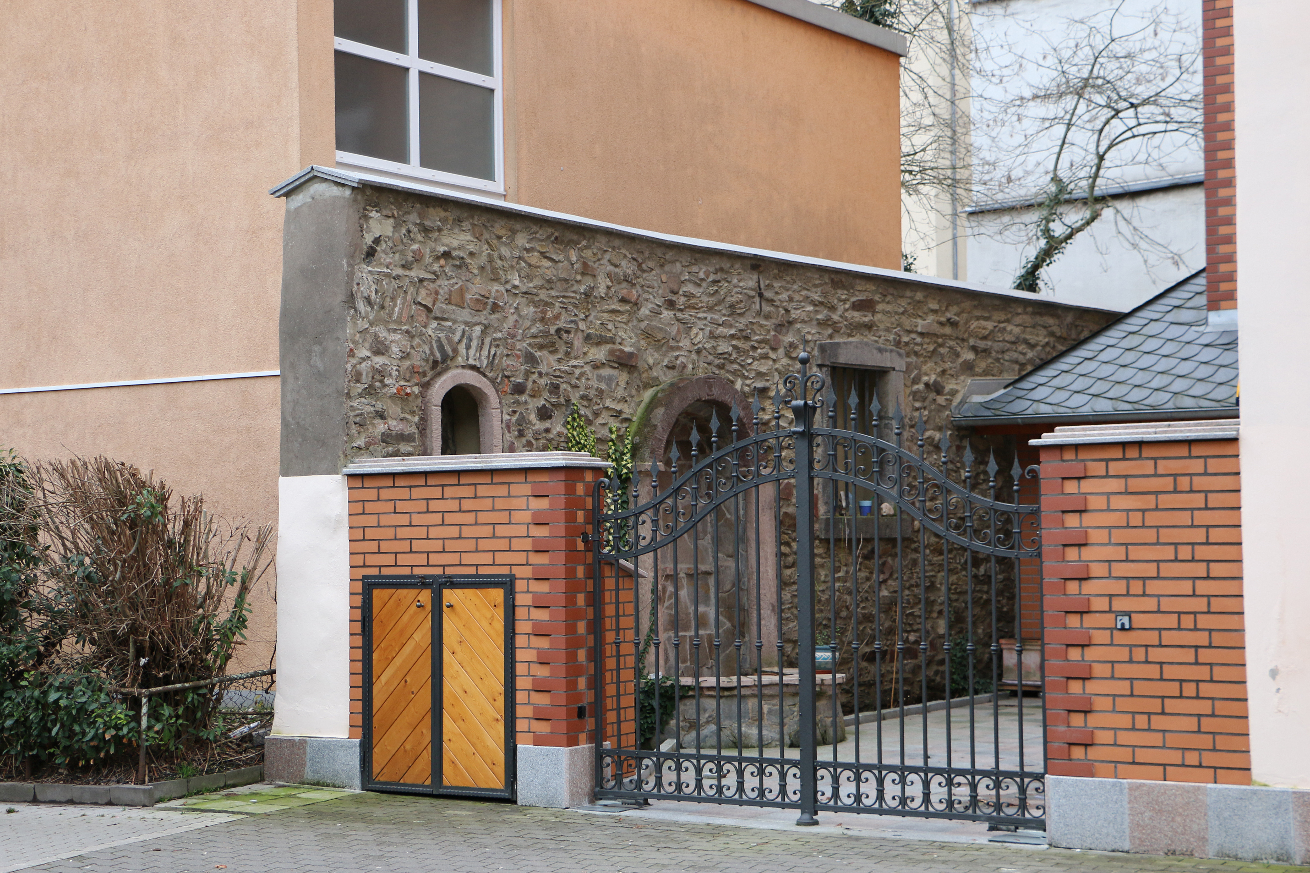 Wall of former franciscan monastery in Koblenz